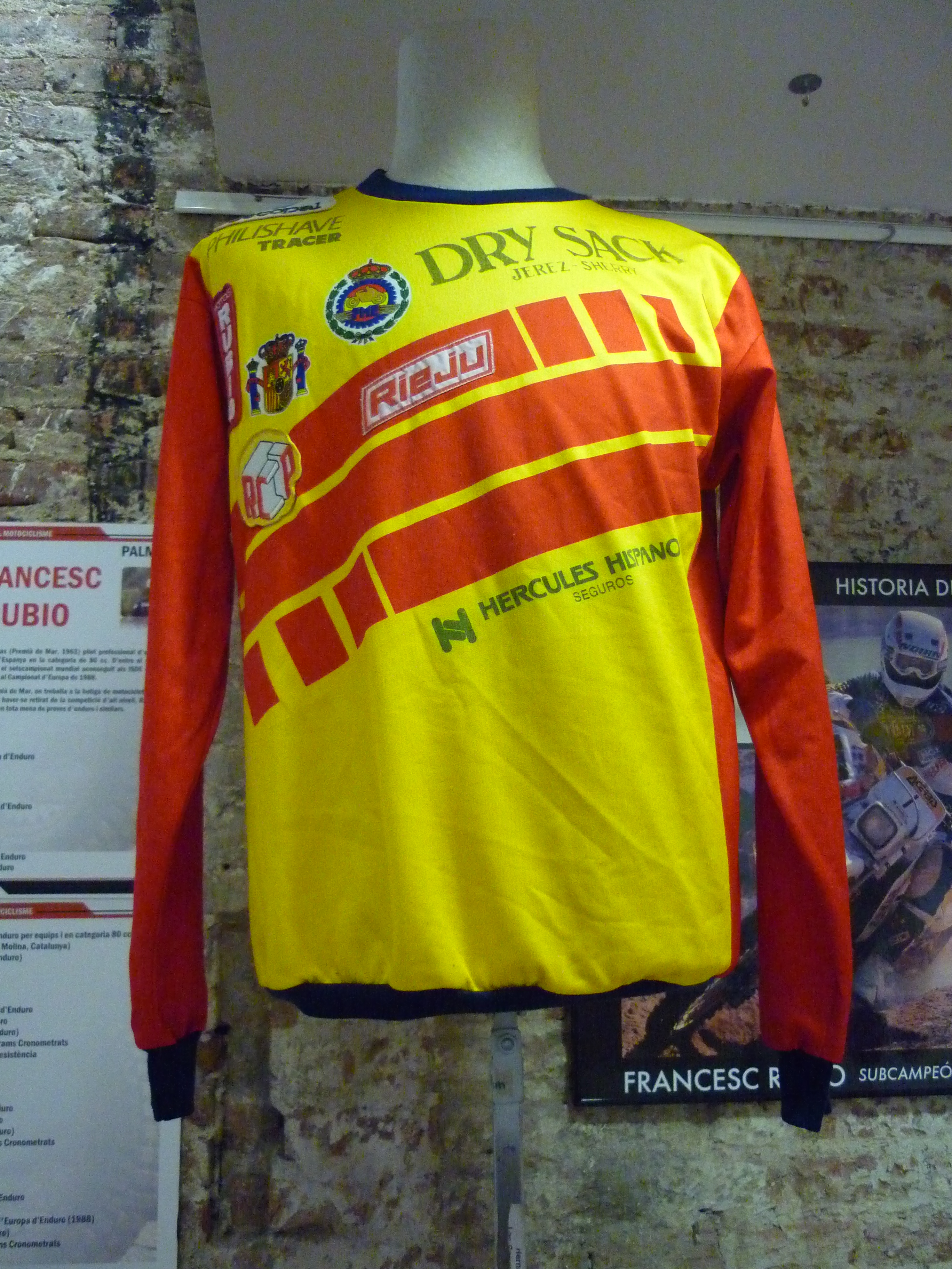 A sweatshirt worn by Francesc Rubio at 1985 ISDE in Alp (Catalonia), as a member of the spanish team